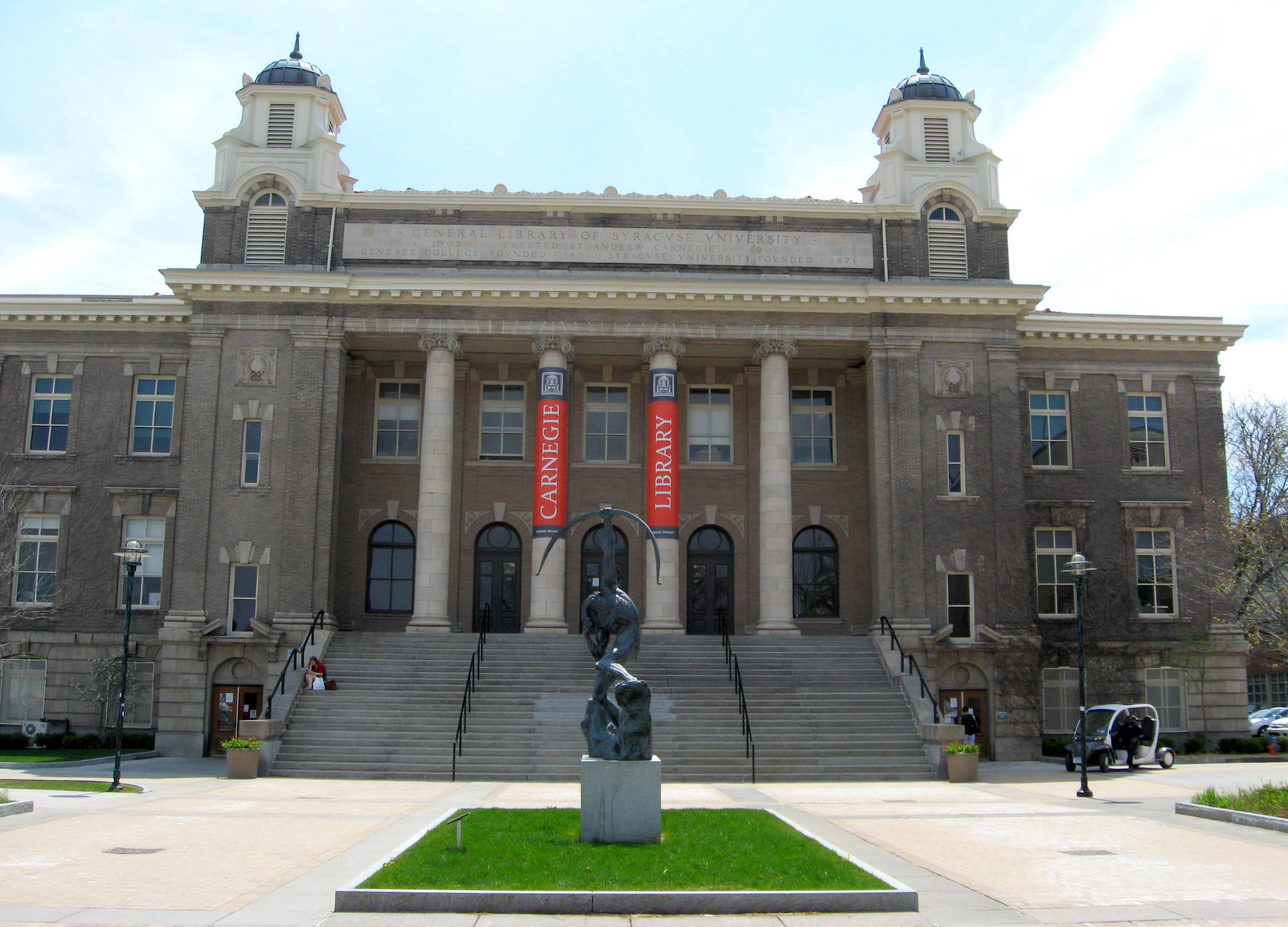 Carnegie Library, Syracuse University, May 2014